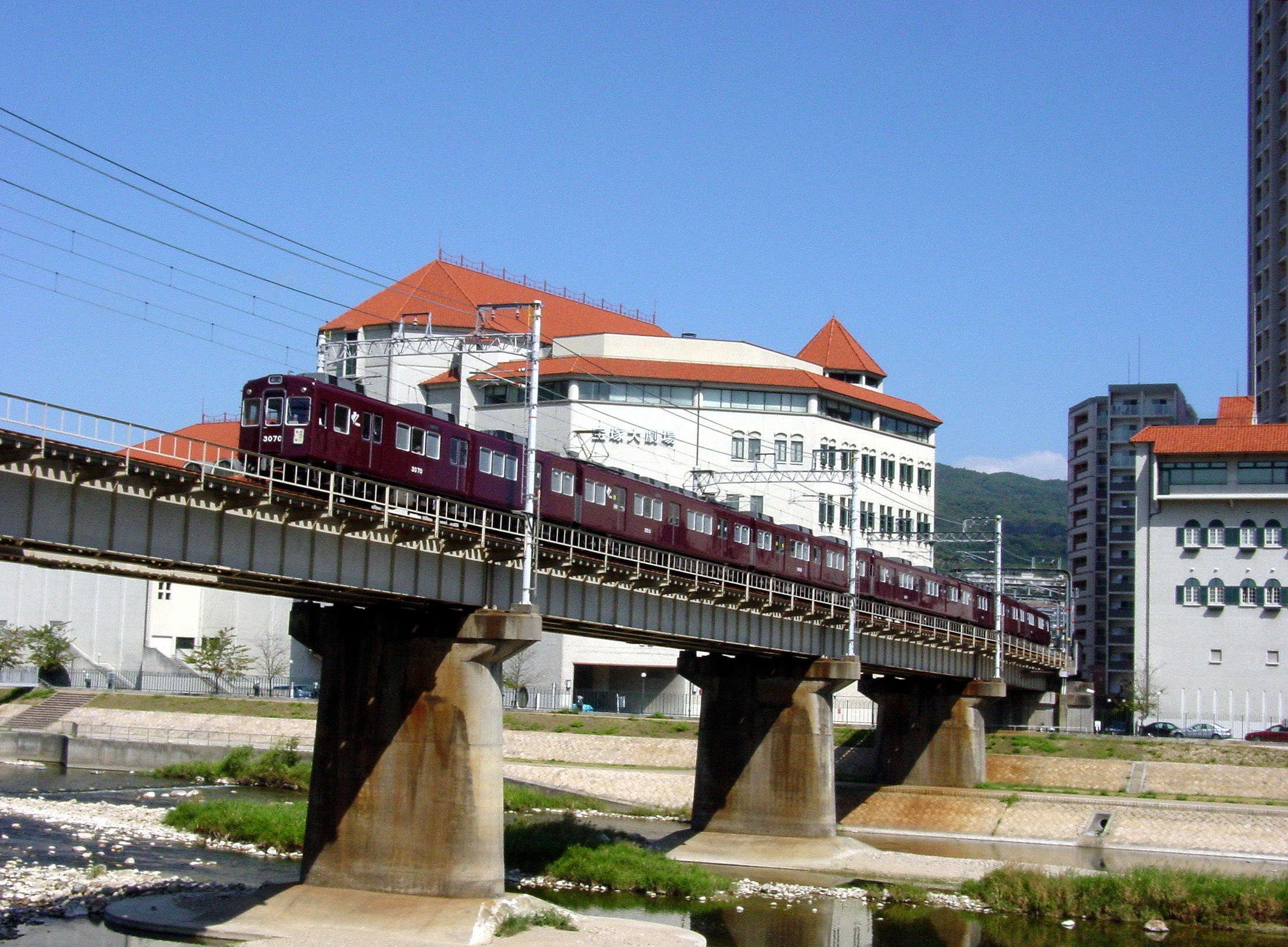 Hankyū Imazu Line